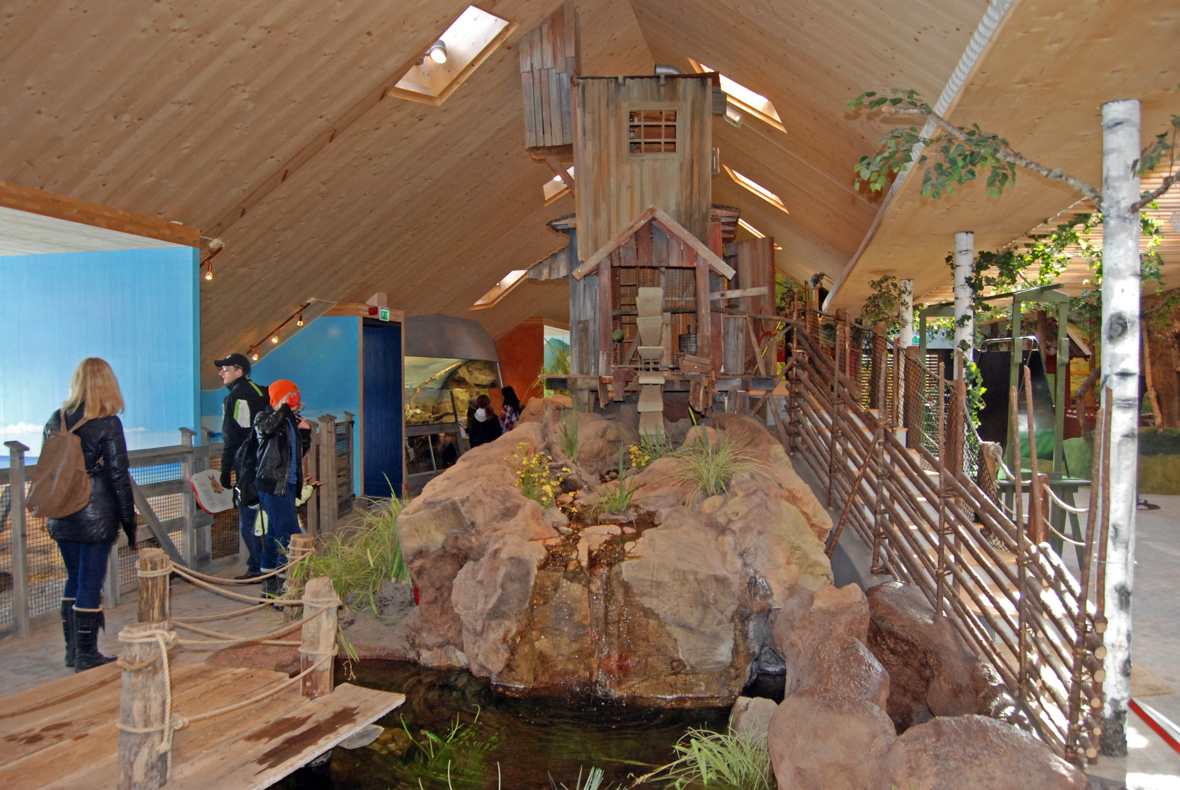 Lill-Skansen, inside